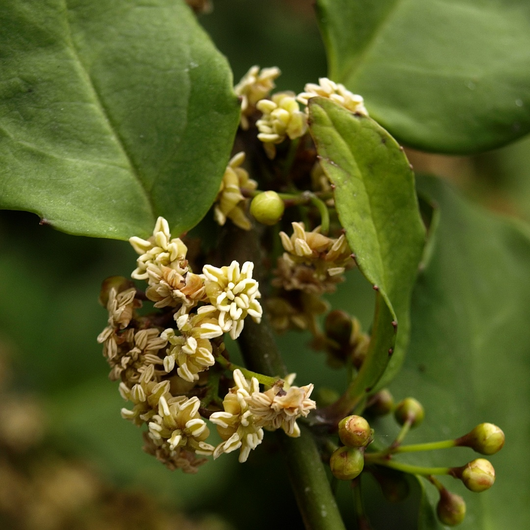 Amborella trichopoda. Greenhouse, Florida International University, Miami, Florida, USA